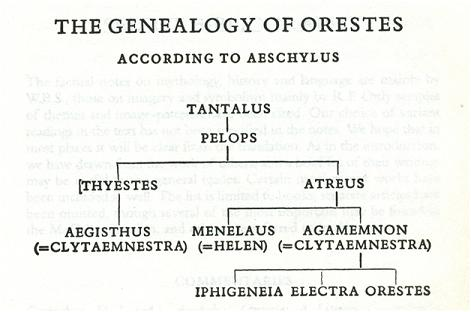 The Genealogy of Orestes according to Aeschylus, ancient Greek playwright and author of The Oresteia